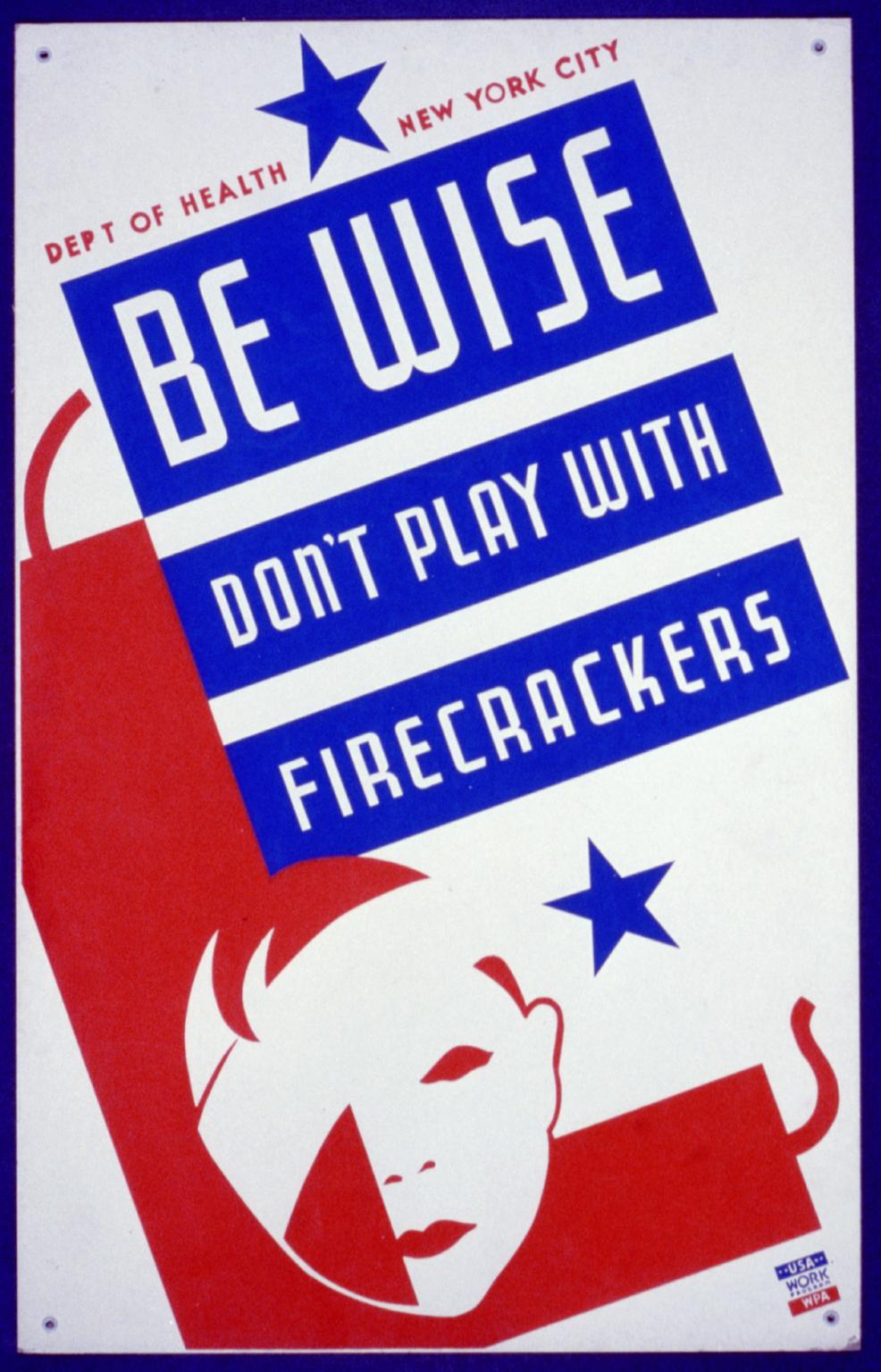 Be wise Don't play with firecrackers : Department of Health, New York City., quality 12 jpeg export of original tiff, unrestored